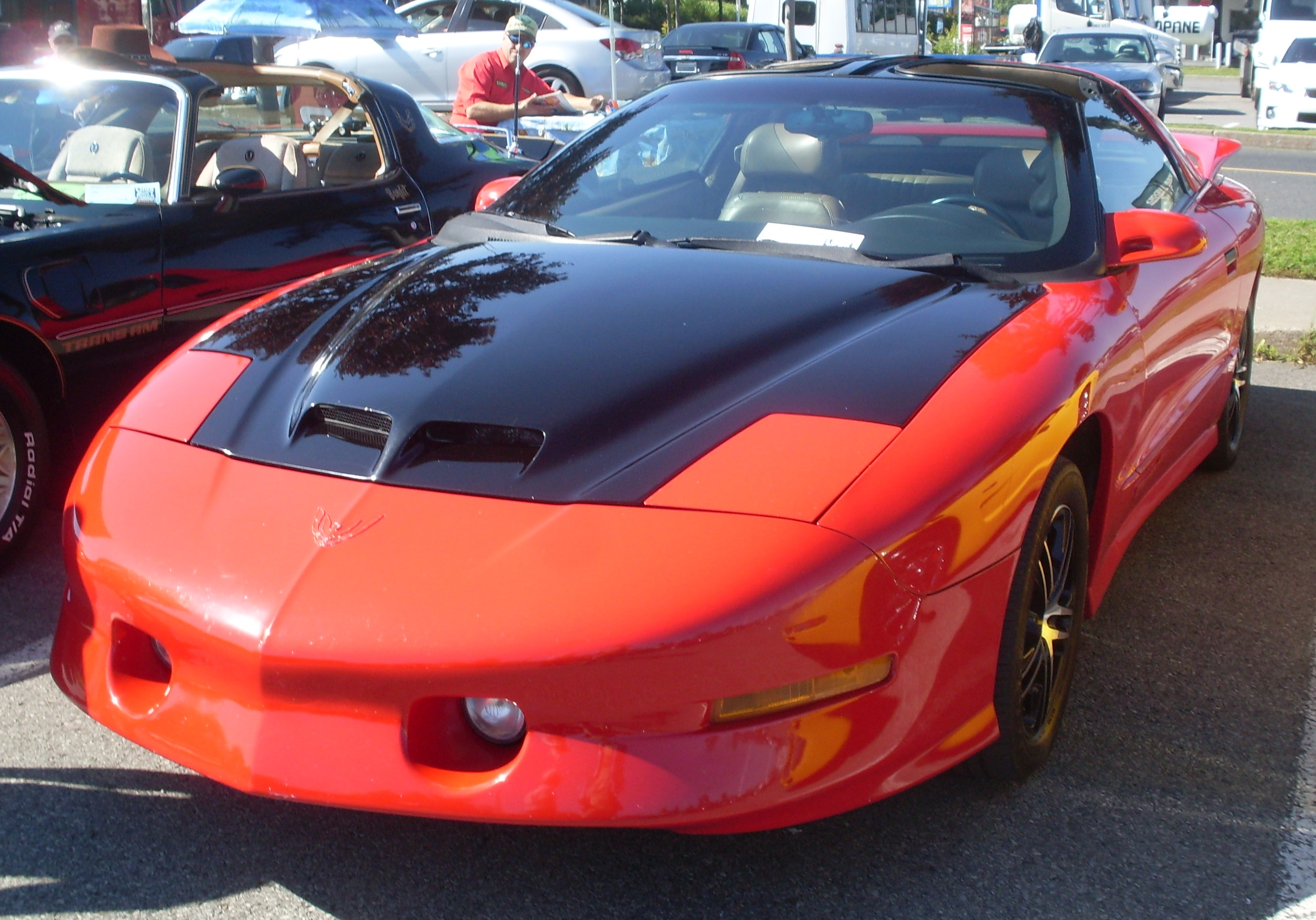 1994 Pontiac Trans Am photographed in Montreal, Quebec, Canada at Rebel Ridez 2013.